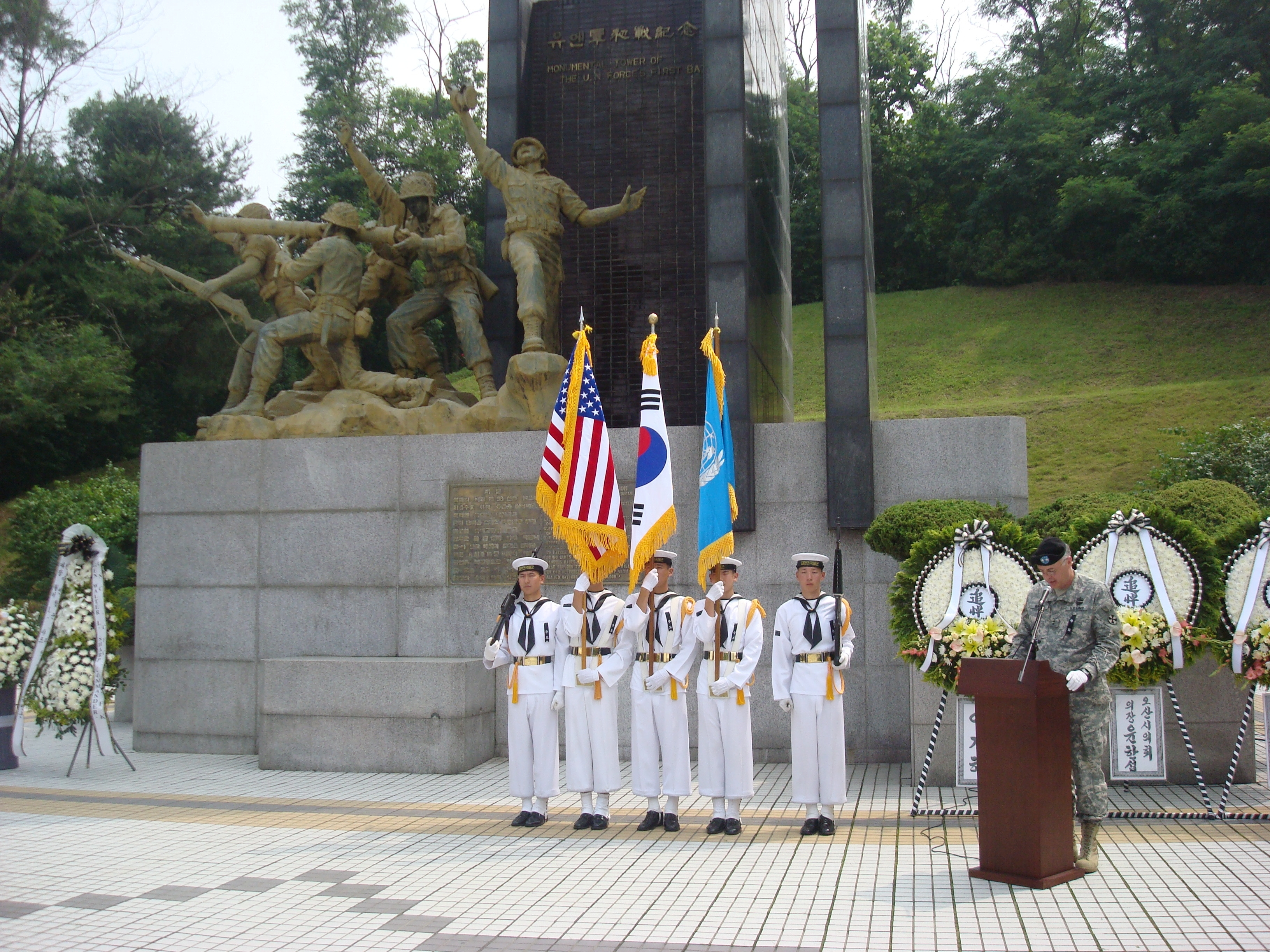 Maj. Gen. Michael Kuehr, Deputy Commander for 8th United States Army addresses attendees on behalf of Gen. Walter Sharp, commanding general for United States Forces Korea, United Nations Command, Combined Forces Command, during the 58th Task Force Smith Commemoration.